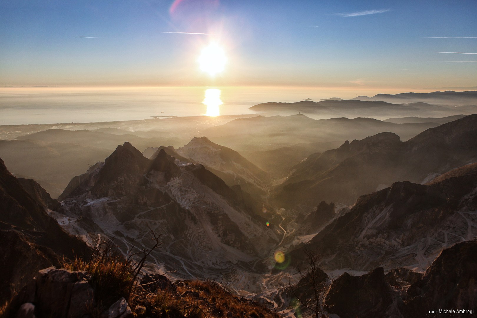 Carrara's landascape from Campocecina